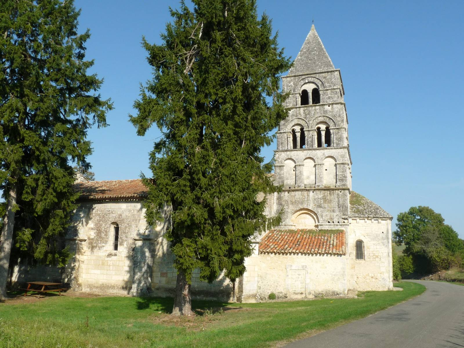 church of Gardes, Charente, SW France